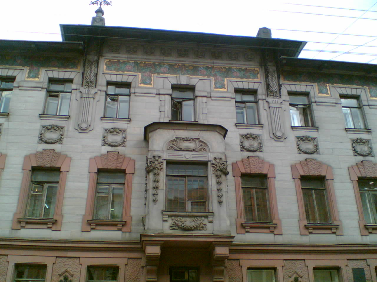 Nabokov House in Saint Petersburg